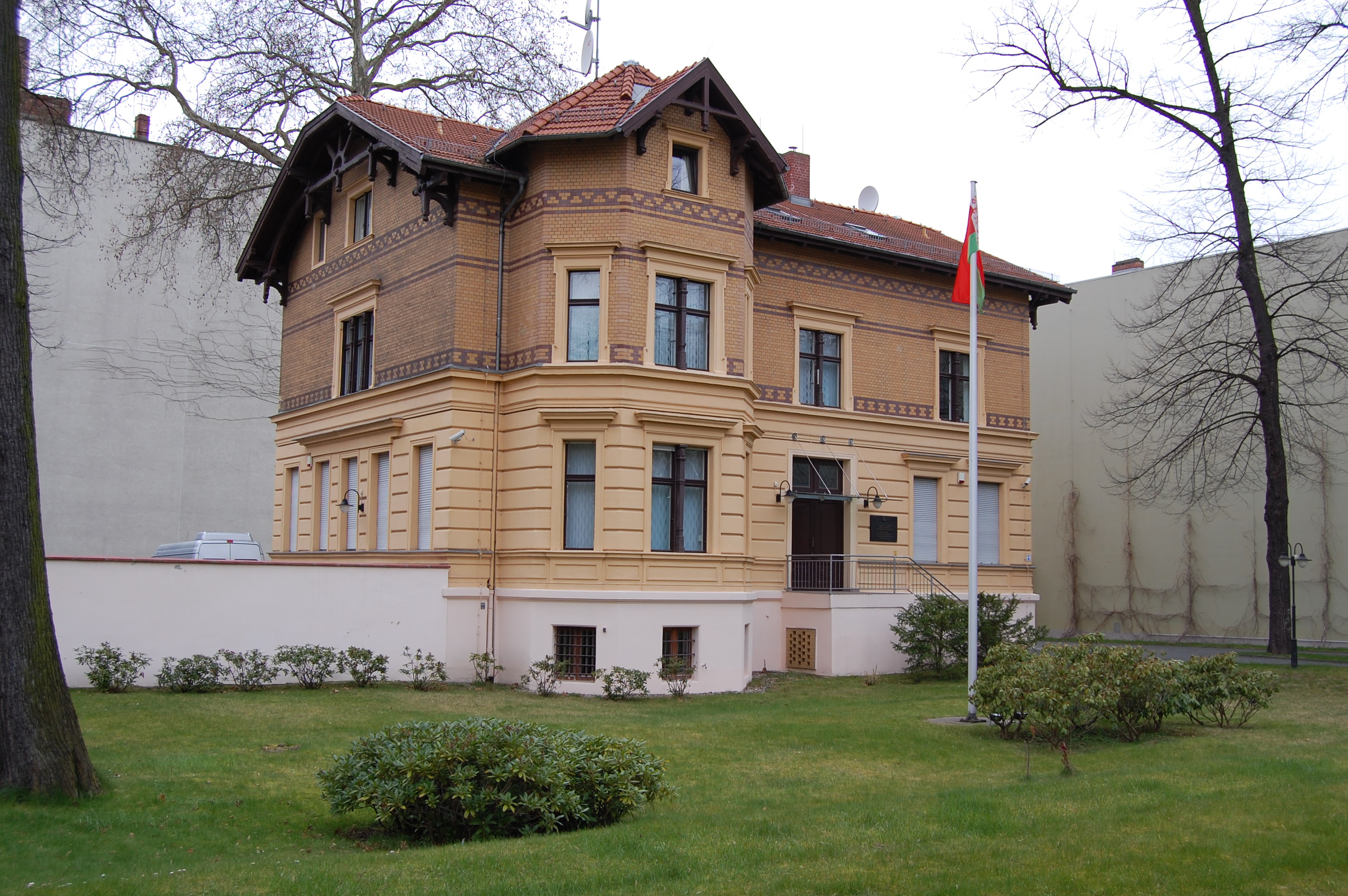 Embassy of Belarus in Berlin